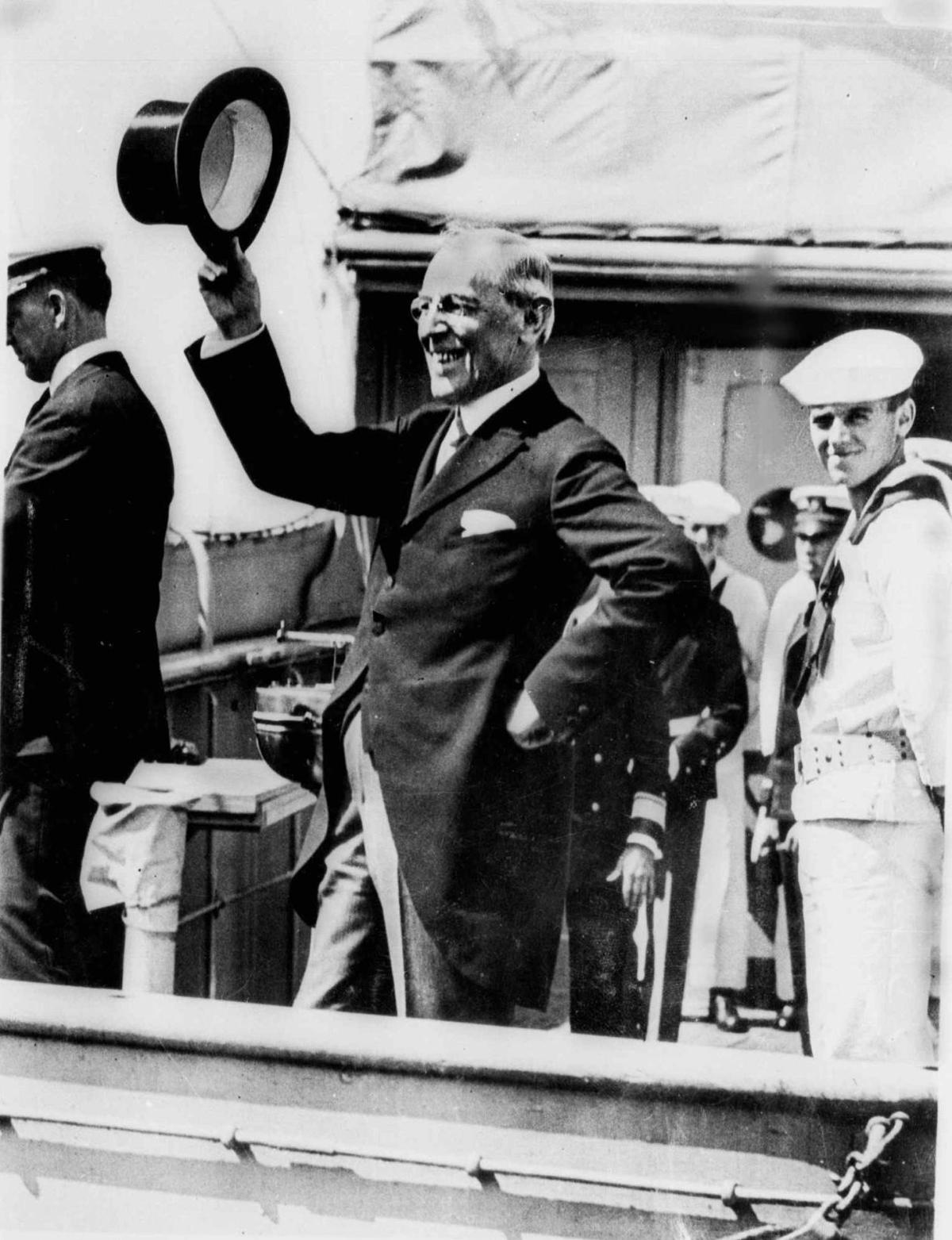 Woodrow Wilson returning from the Versailles Peace Conference